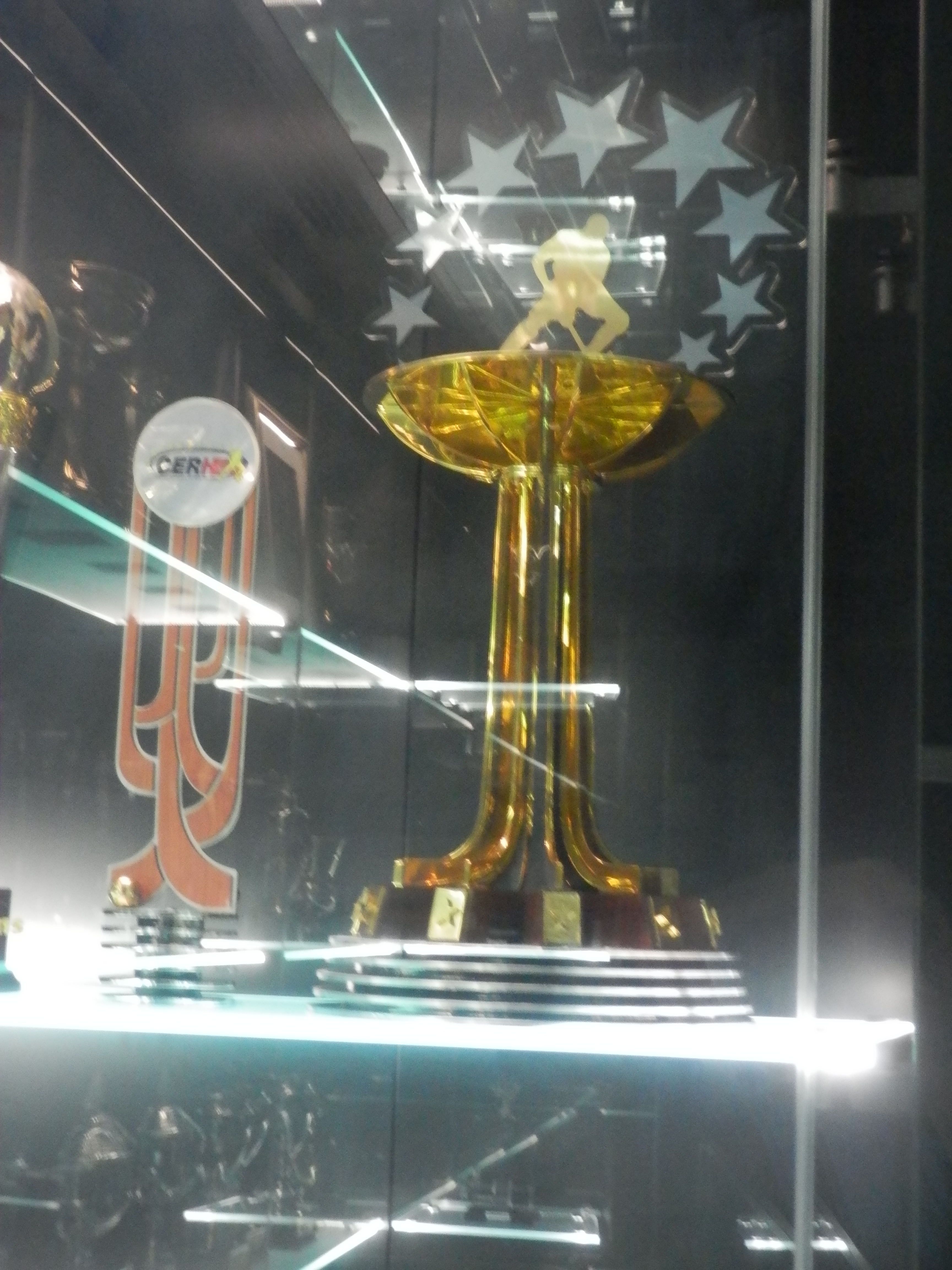 The trophy with a more close view